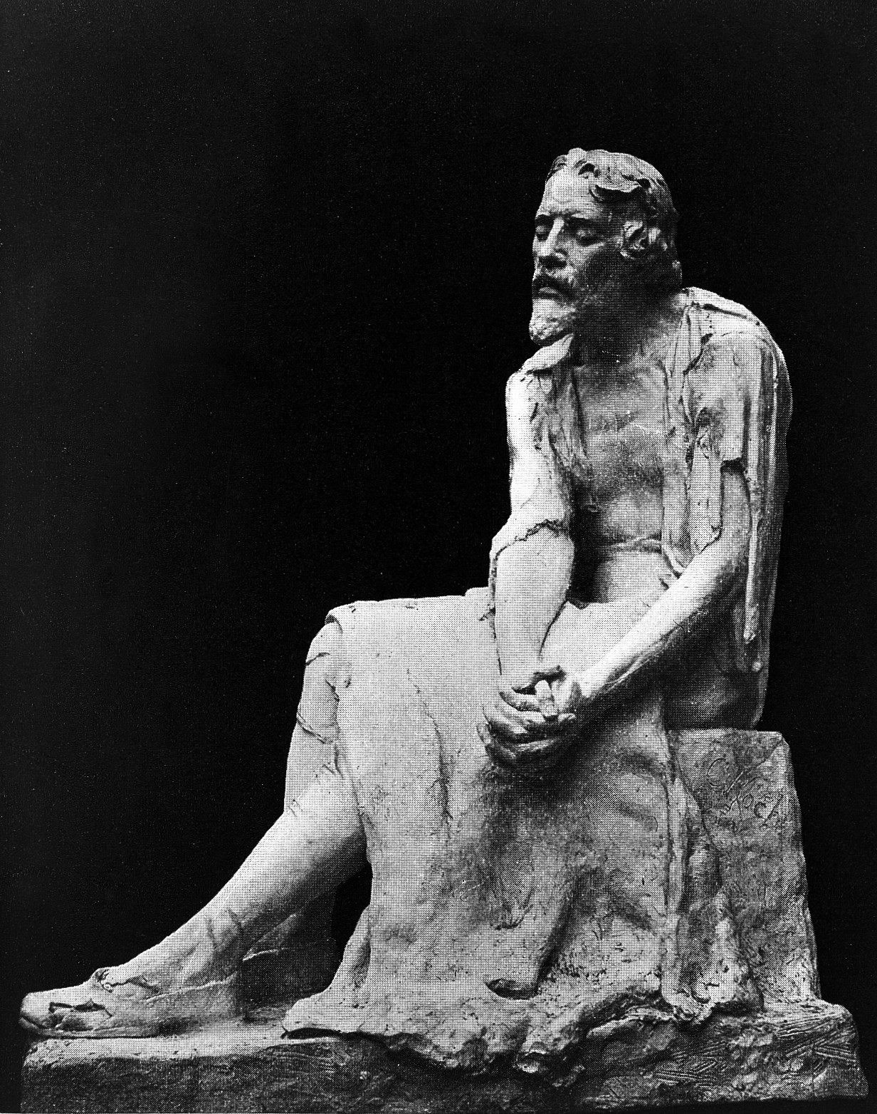 Servetus in prison, bronze statue by Clotilde Roch. Wellcome Images Keywords: Michael Servetus; Clotilde Roch